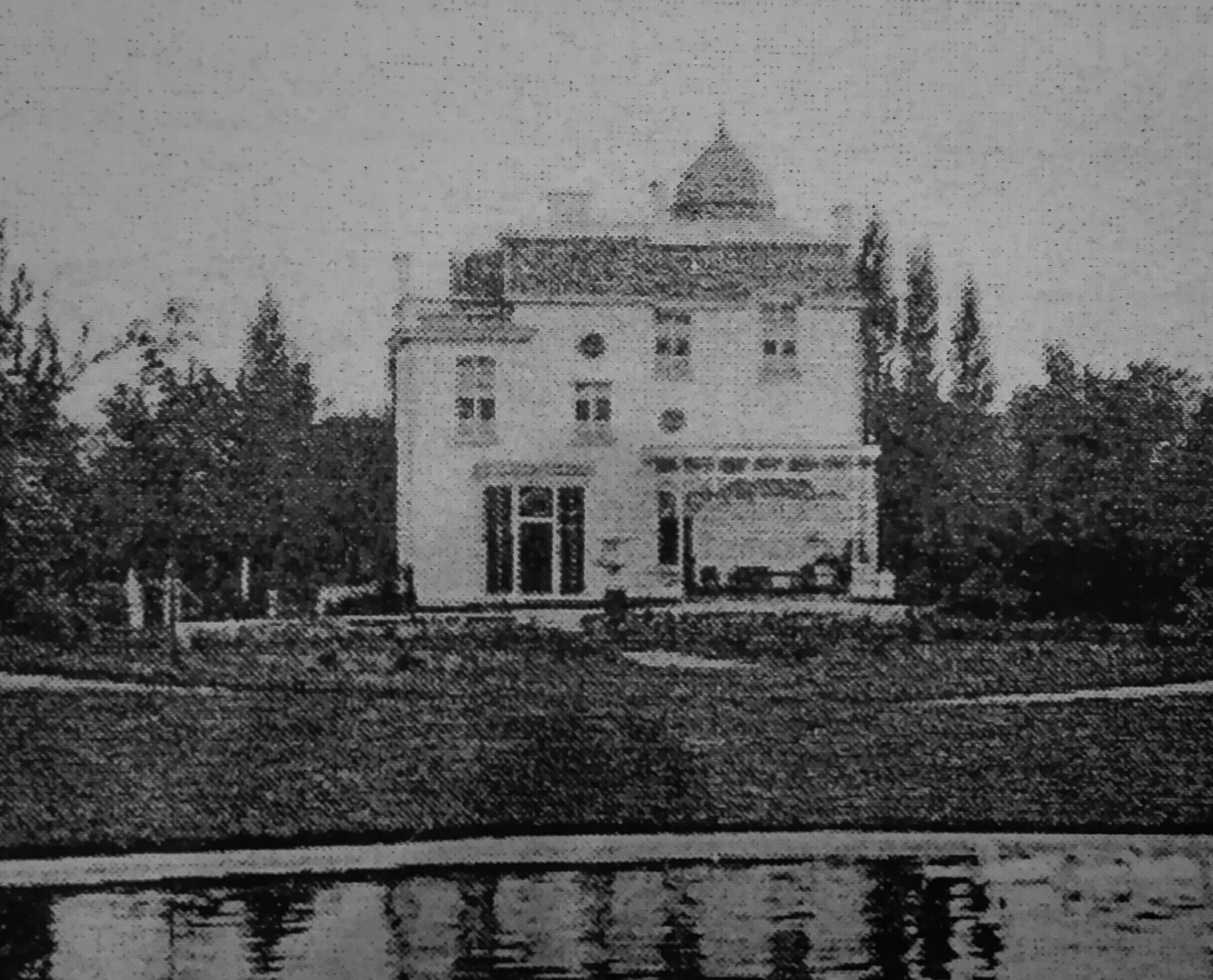 Old picture from villa Les Clématites in Boechout (Belgium). The author is unknown and the picture is older than 70 years.